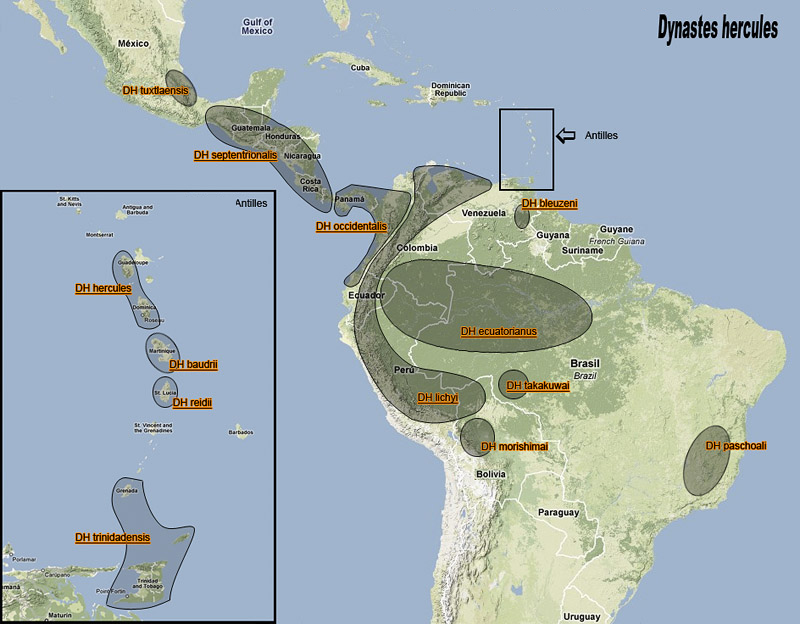 Habitats of different subspecies Dynastes hercules